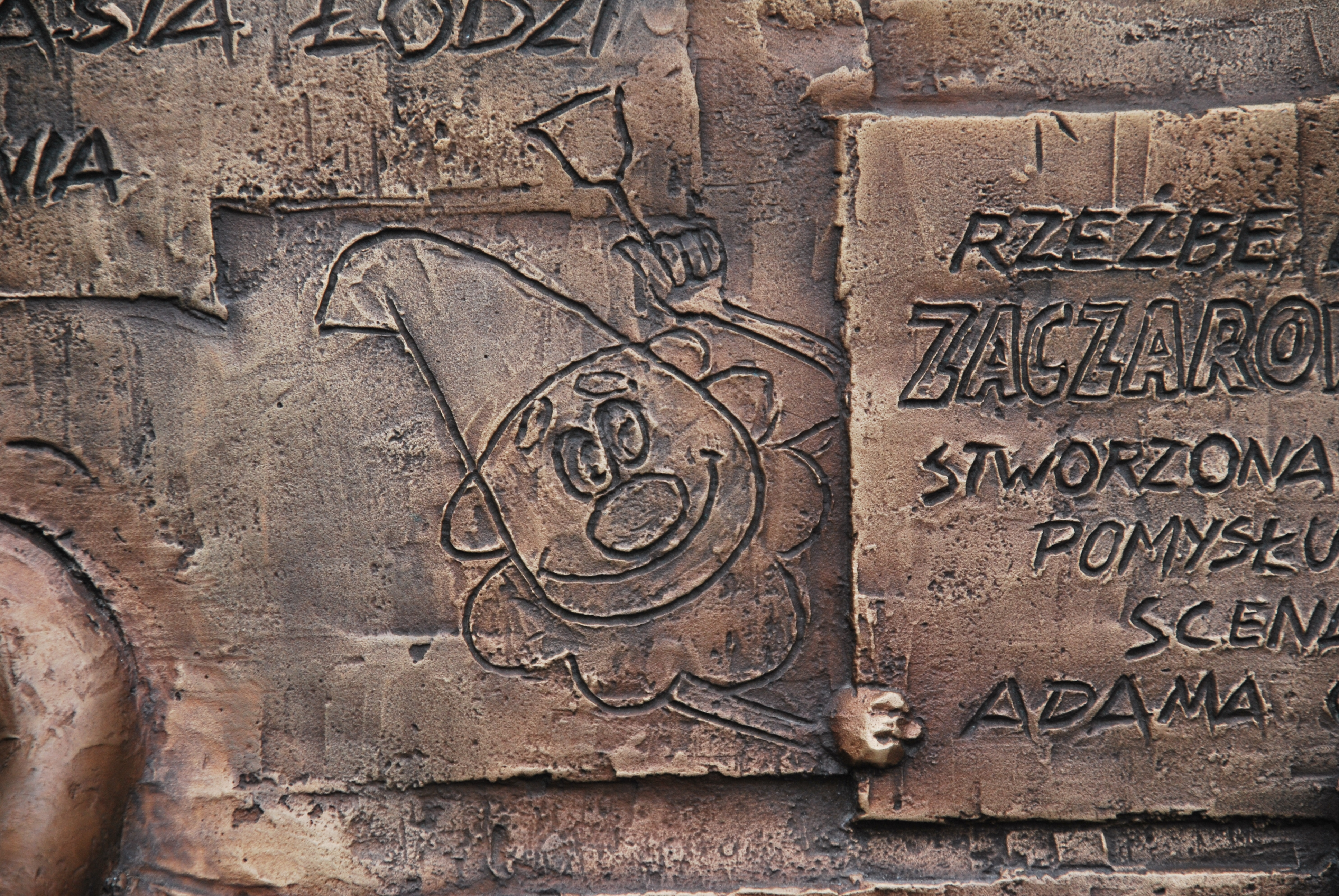 Dwarf from cartoon 'Zaczarowany ołówek' on sculpture, Łódź Culture Center